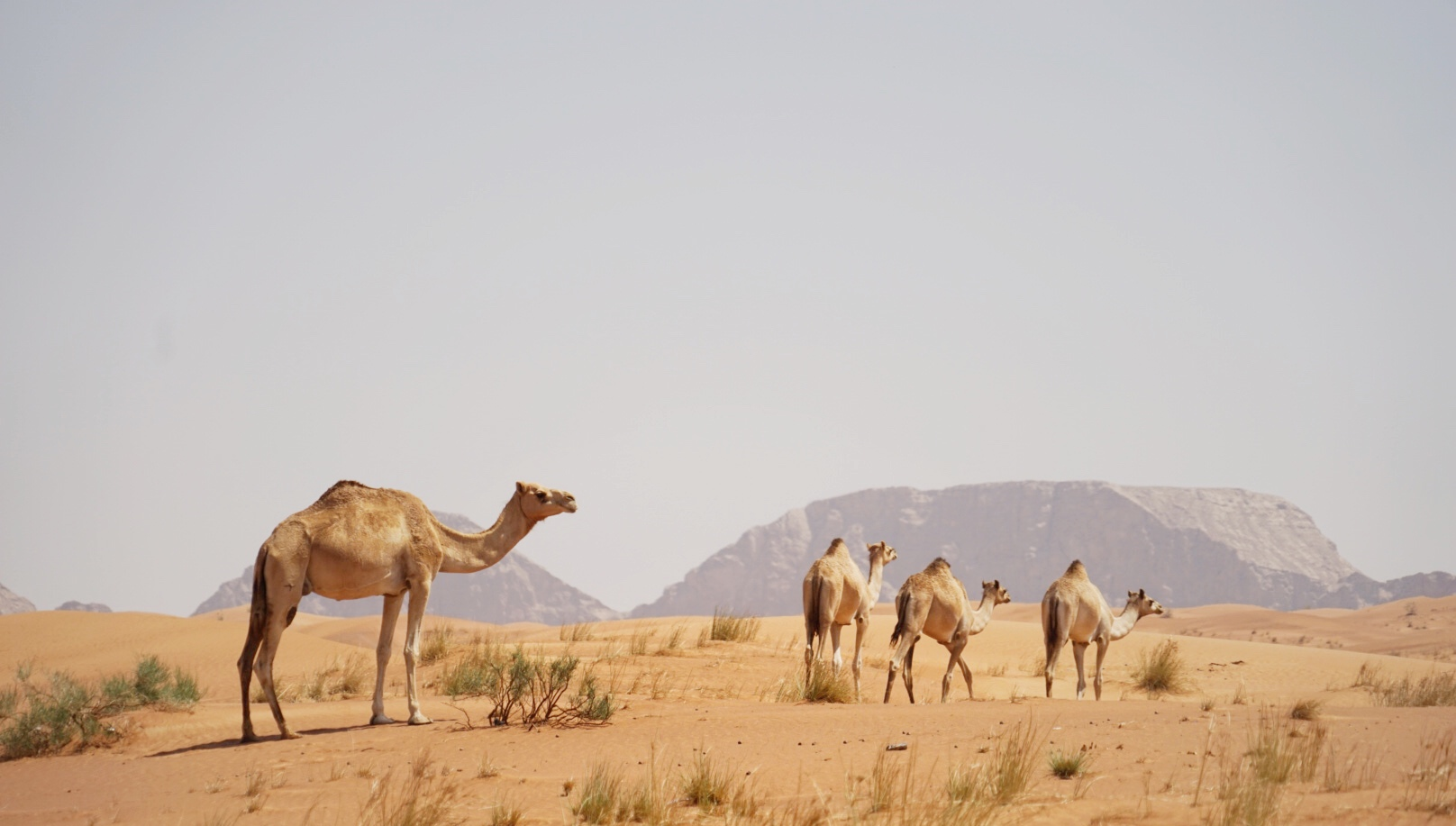 Camels wandering the desert with Fossil Rocks in the background